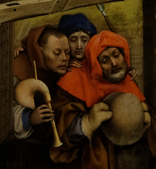 detail: shepherds